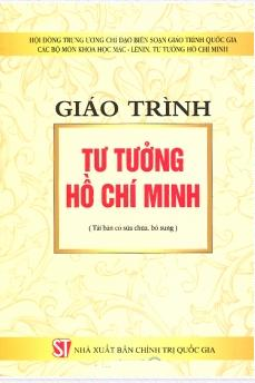 This is the picture of the cover of the book Tu tuong Ho Chi Minh published by Chinh tri Quoc gia publisher